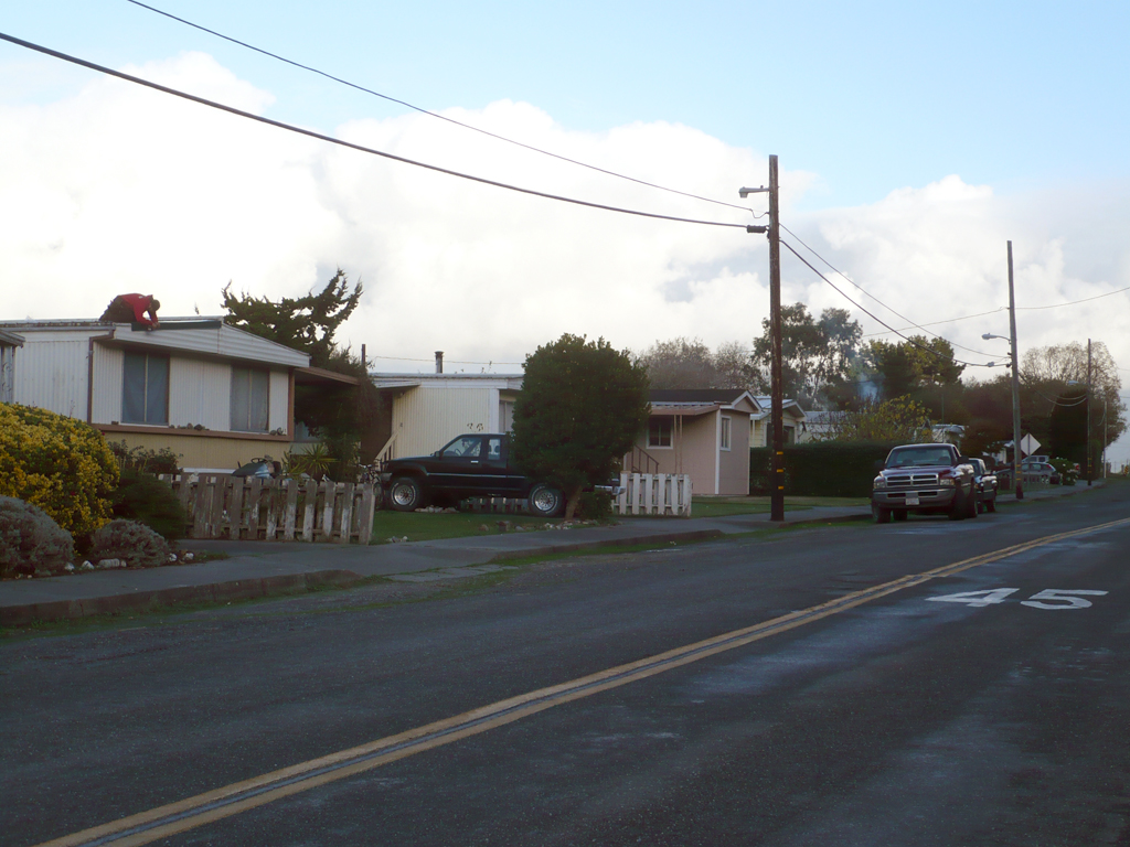 The townsite of Meridian, California is now in unincorporated Humboldt County, California. This is a street view eastward along Centerville Road.